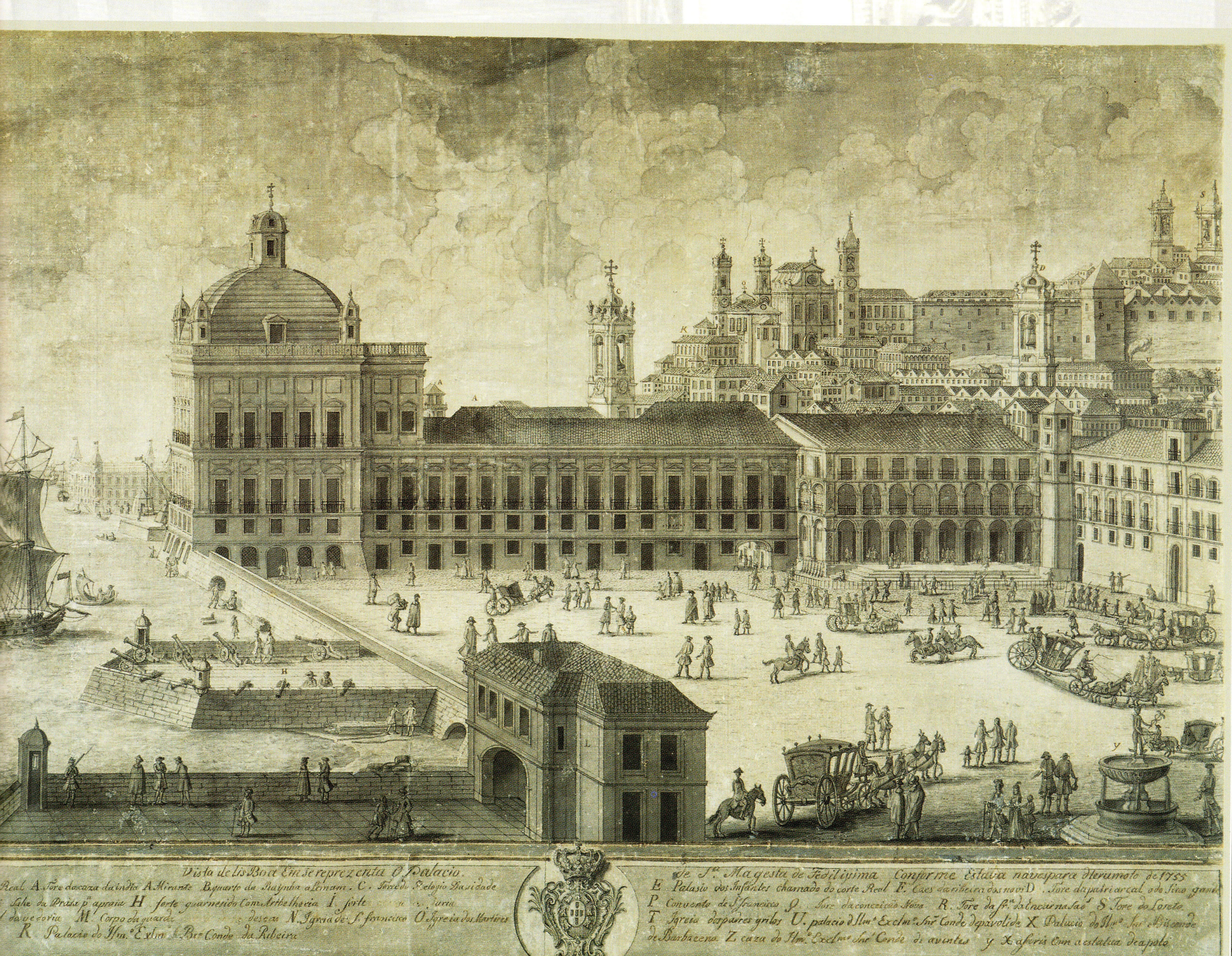 A 1783 copy from a 1740 drawing of Ribeira Palace, by Zuzarte.